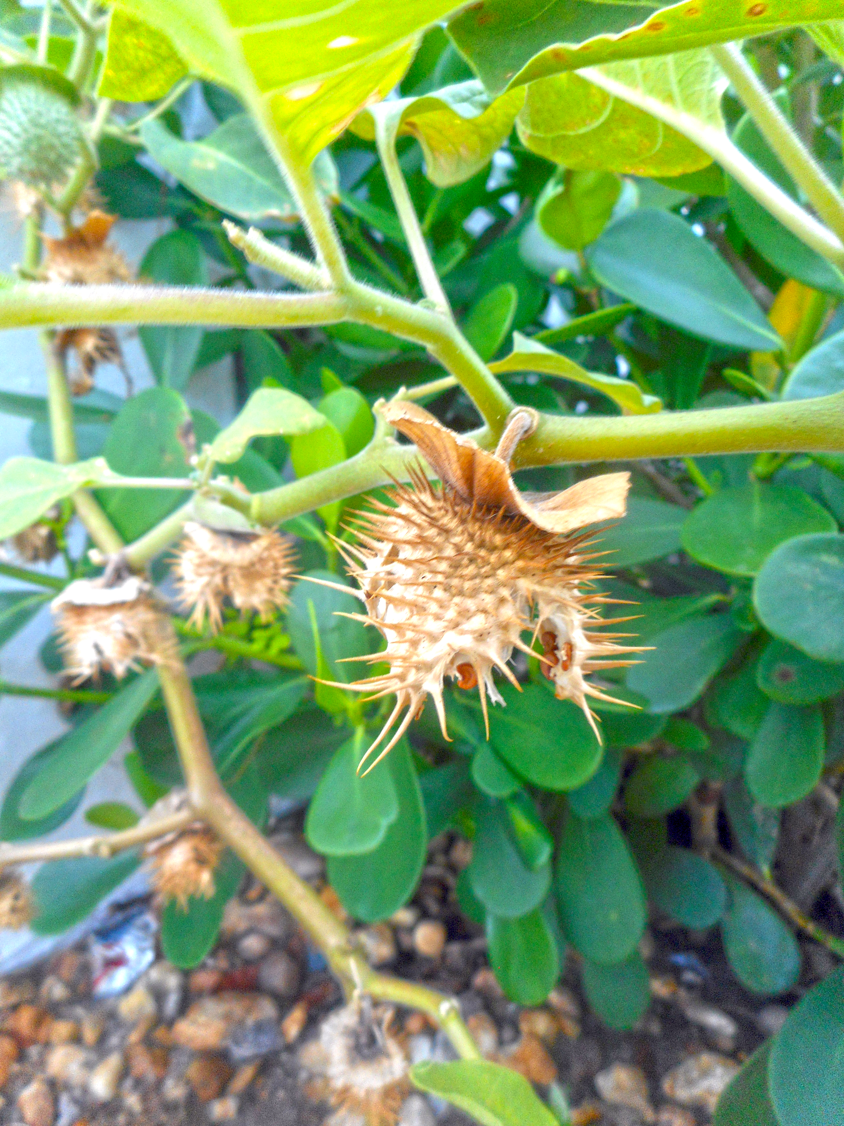 Devil's Trumpet - Seed pod (dry fruit)